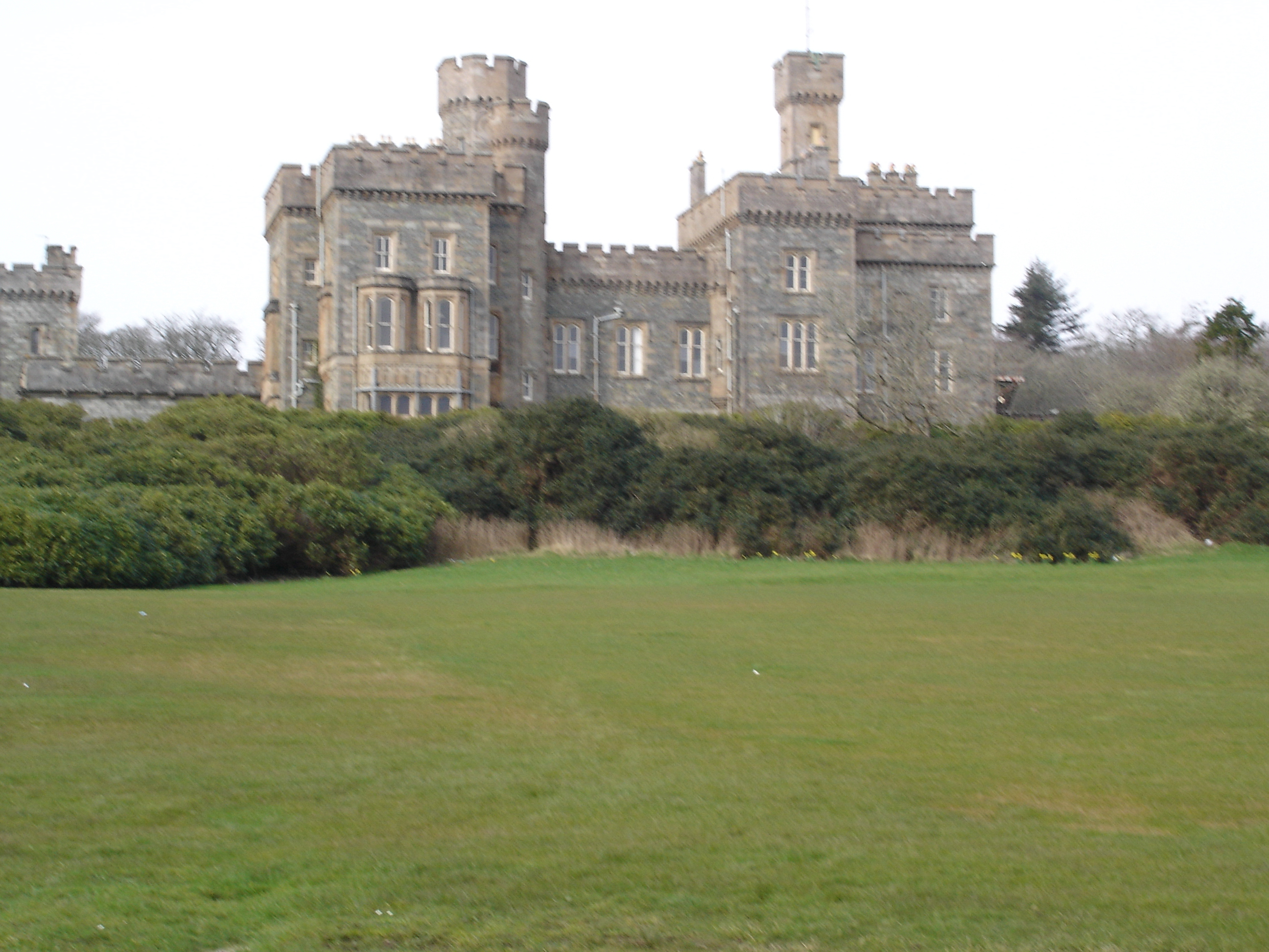 South-facing facade of Lews Castle in Stornoway.